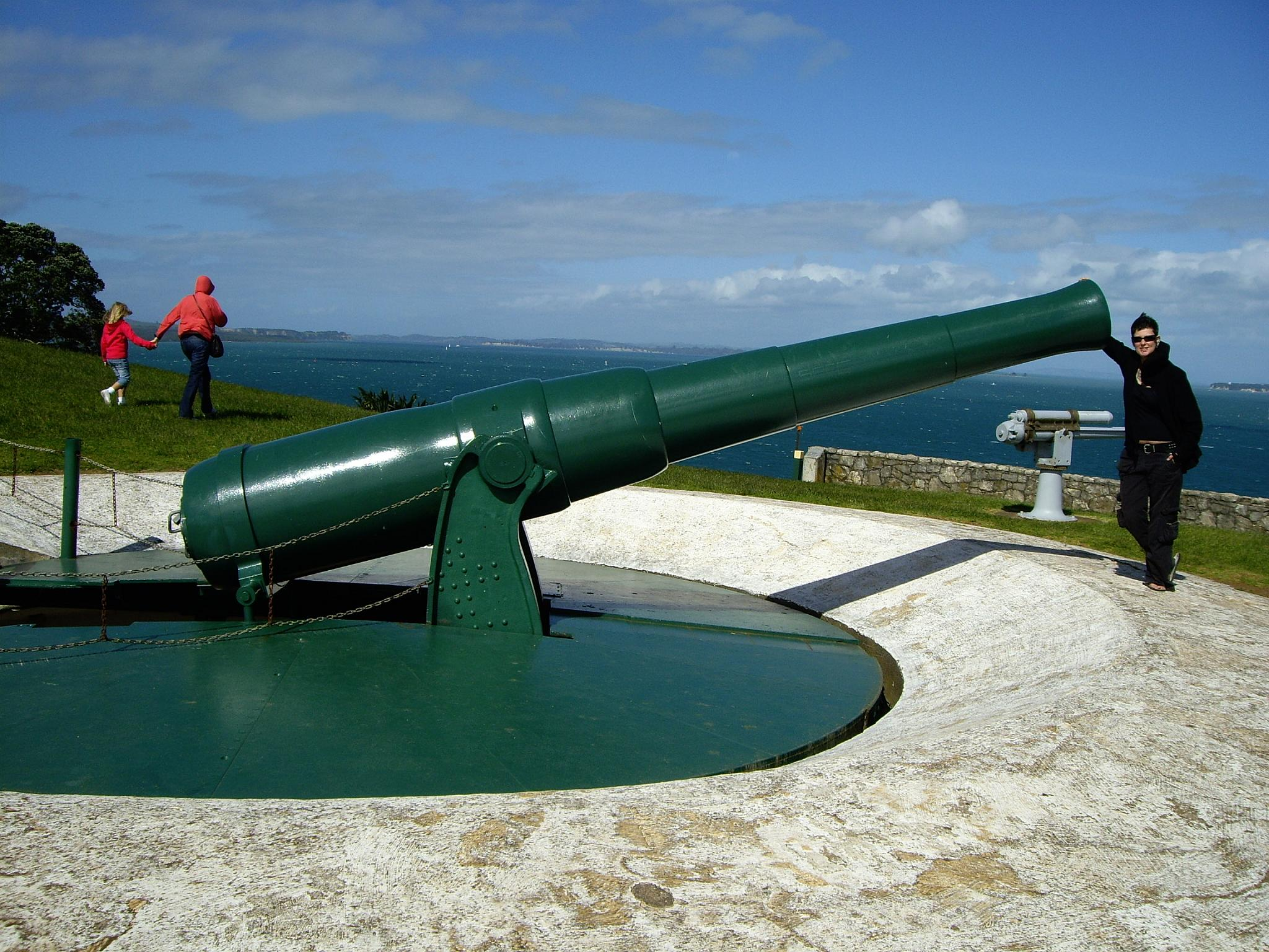 Photograph of disappearing gun (a BL 8 inch gun Mk VII) of the South Battery of North Head, in Devonport, North Shore City, New Zealand.